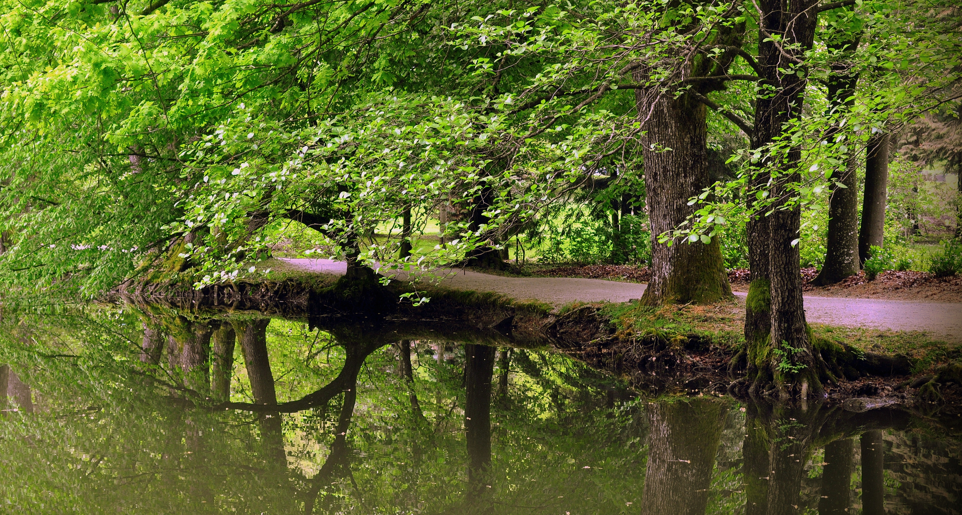 Volčji Potok Arboretum - Otočec